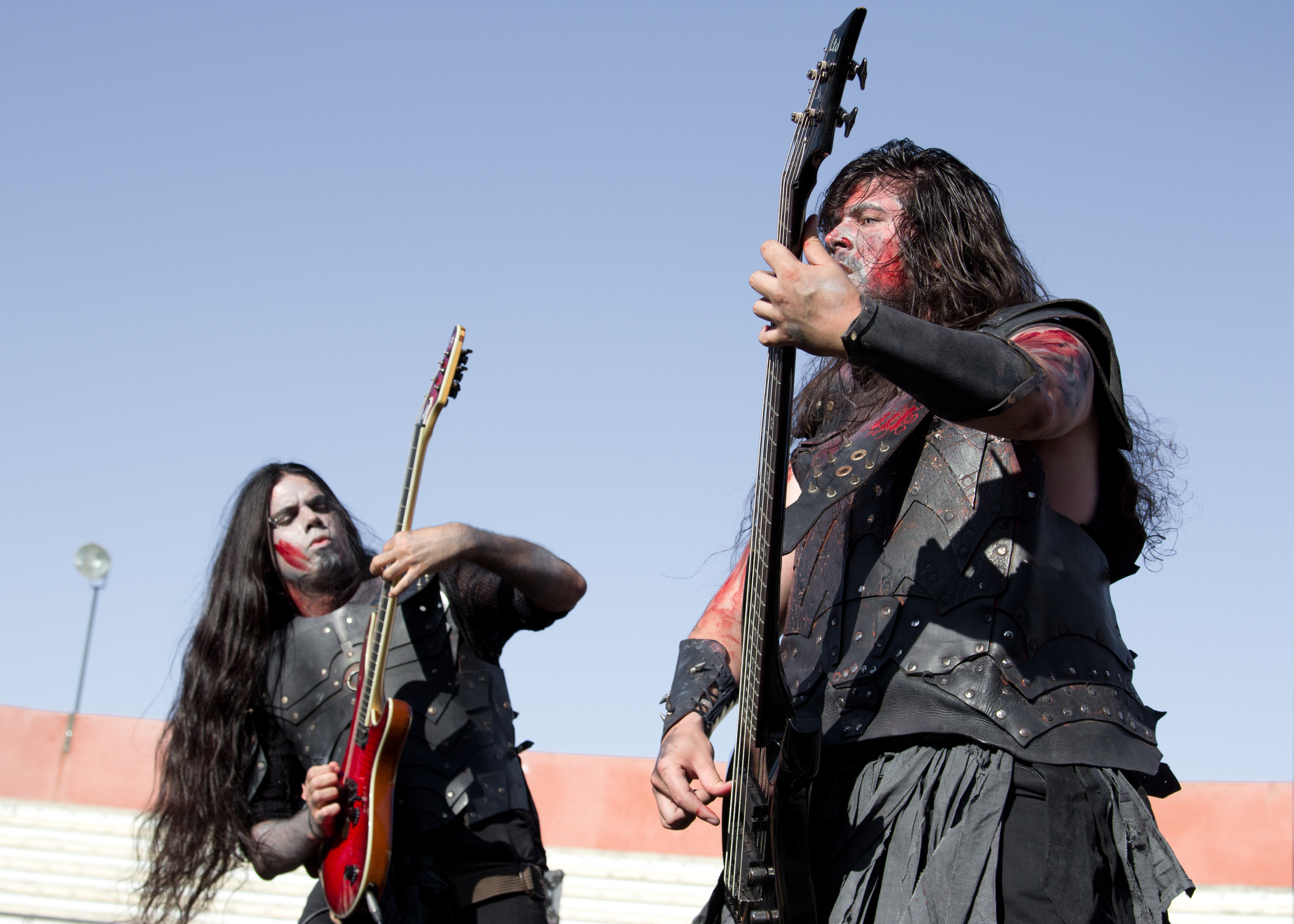 Spanish metal band Noctem at Asaco Metal Fest 2013, Parla, Spain.